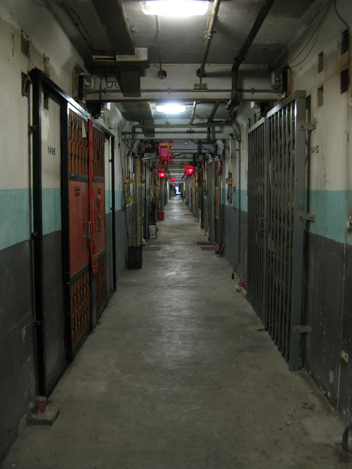 Interior Corridor at Block 9, Lower Ngau Tau Kok (II) Estate